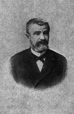 Efthymios Karakalos (1836-1934): Greek writer and politician